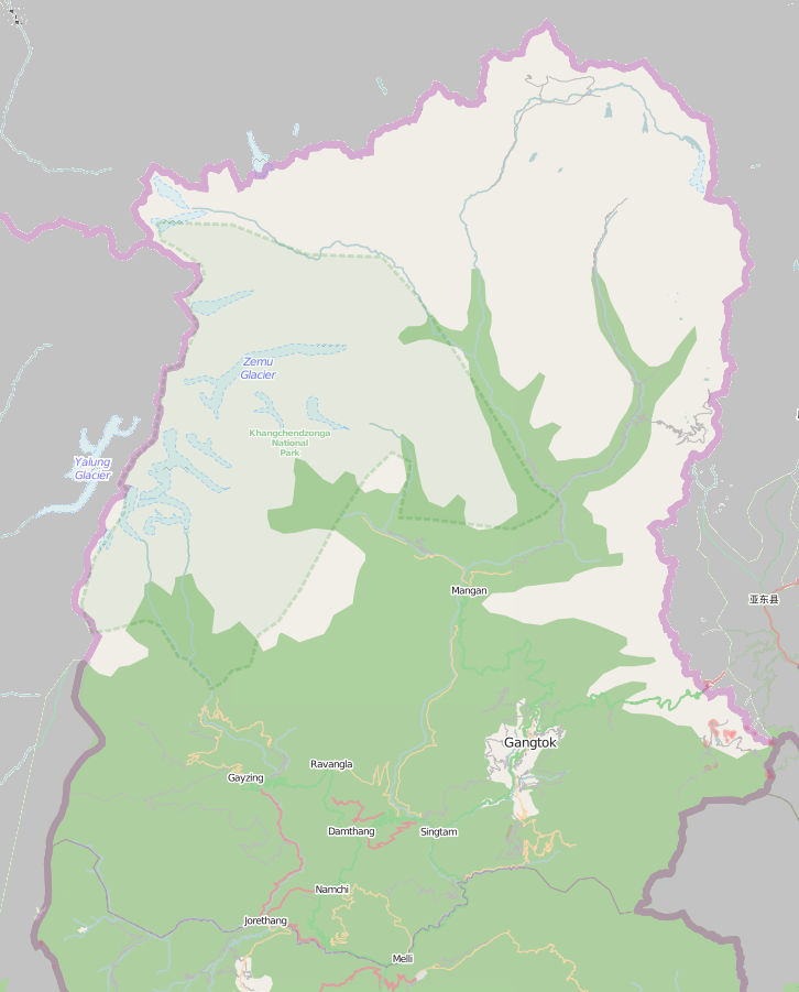 sikkim locator coords lat 28.15 to 27.05, long 87.95 to 88.95